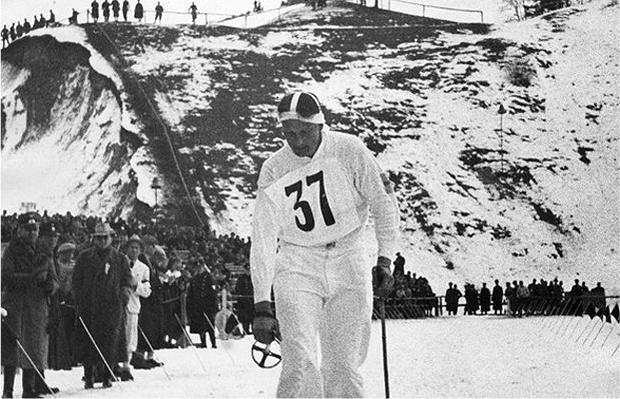 Elis Wiklund here at the 1936 Winter Olympic where he won the 50 km event.